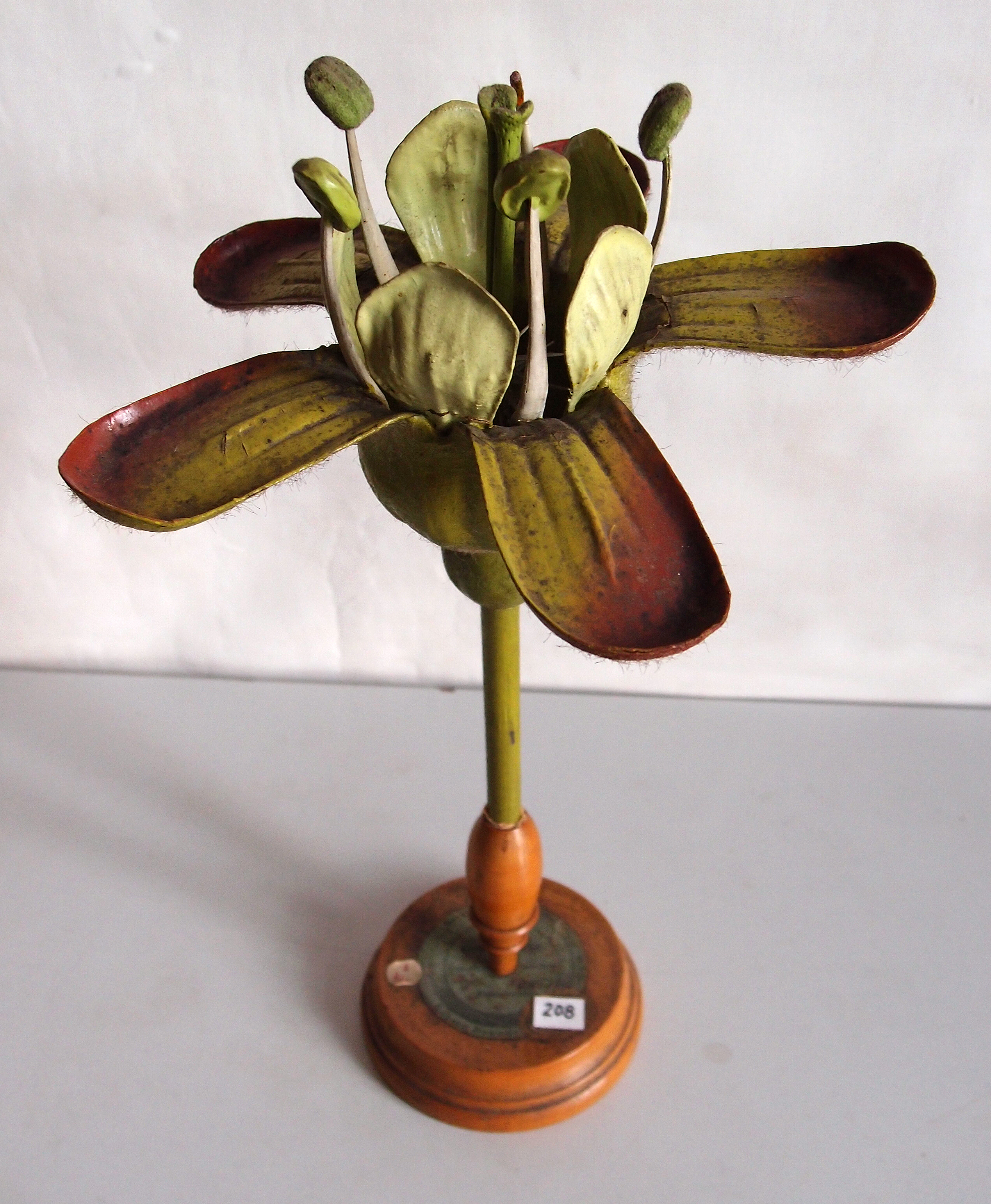 Model from the collection of the Botanical Museum in Greifswald, Germany. . see also for more information on the models